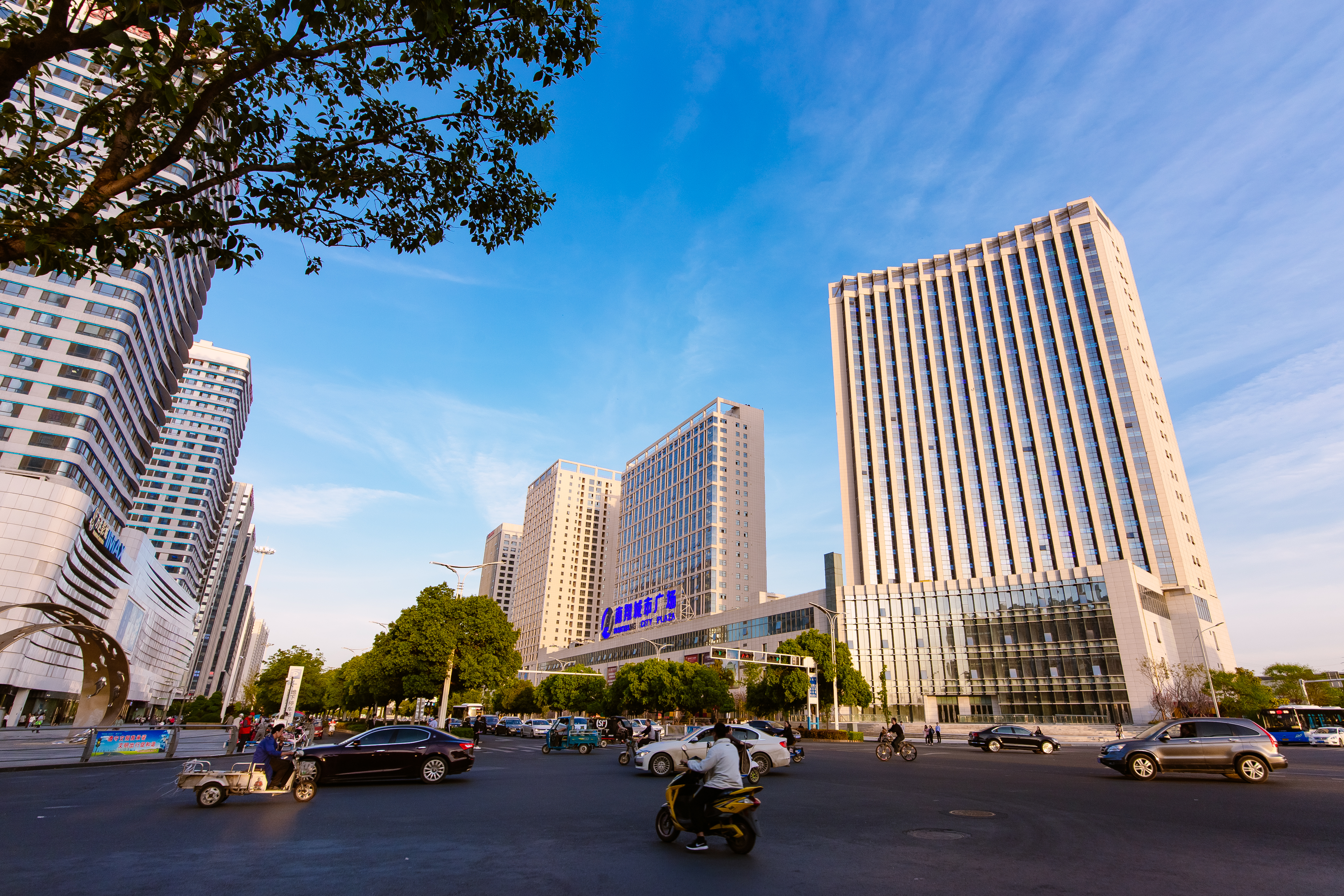 Located in Bengbu Donghai Avenue and Workers and Peasants Road intersection of two city integrated CBDs